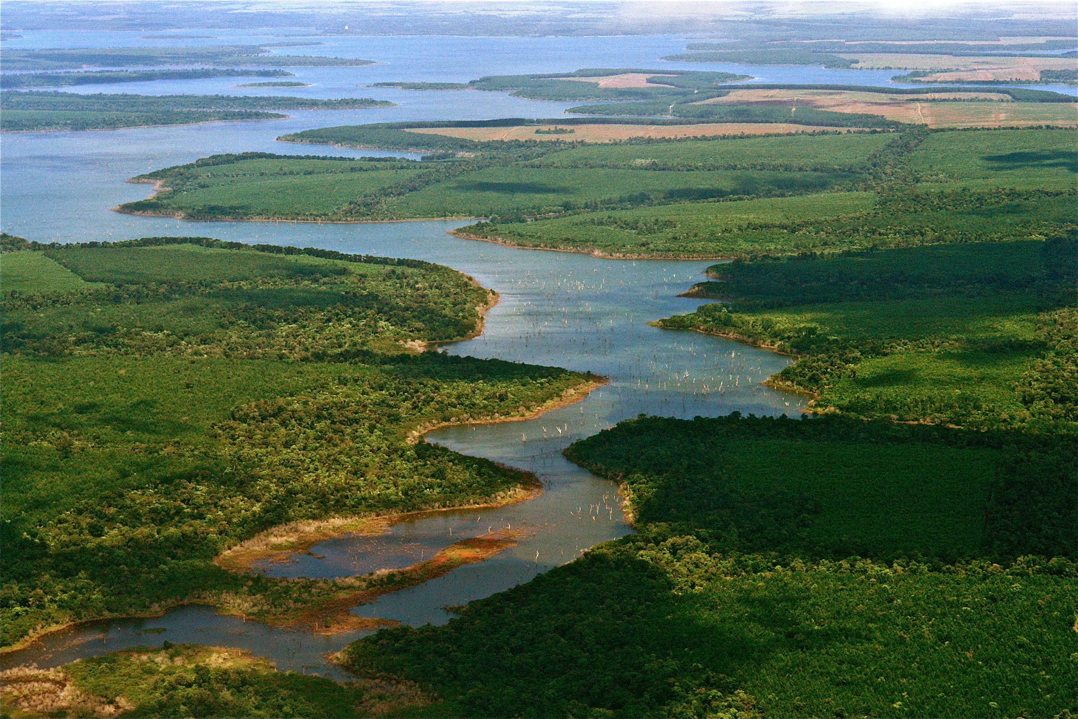 Lagunas y Esteros del Iberá’ is a fragile and important wetland that is under the protection of an international treaty. is a part of the extensive Paraguay-Paraná swamps system and the South-American marshlands. It is also contains the biggest amount of drinking water in Argentina.